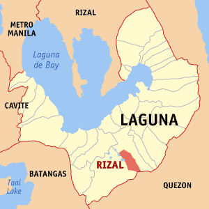 Locator map of Rizal in Laguna, Philippines.